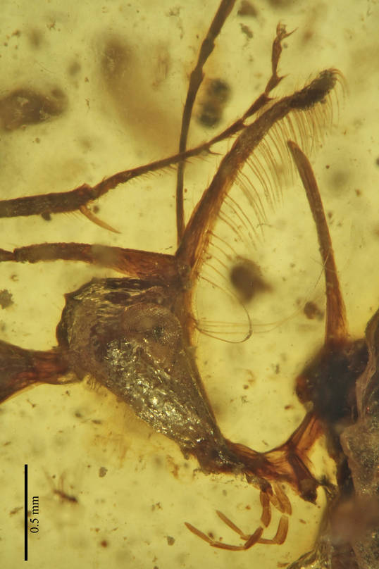 Closeup view of a Ceratomyrmex ellenbergeri head. Paratype specimen IGR.BU-002, Geological Department of the University of Rennes, France Burmese amber, Earliest Cenomanian; Kachin State, Myanmar